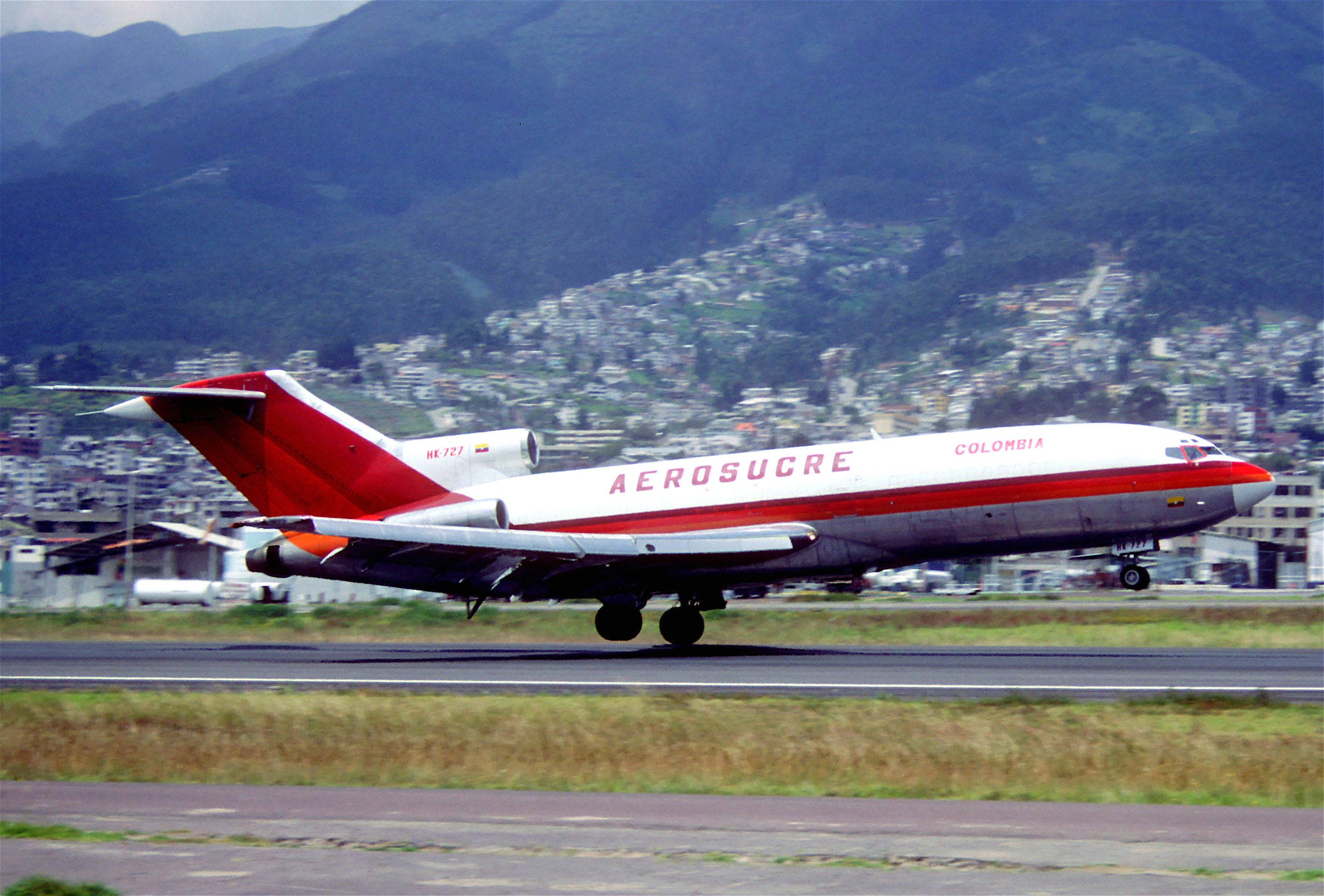 First flight: March 16, 1966... In service with Avianca from 1966 until 1992, since 1992 with Aerosucre...